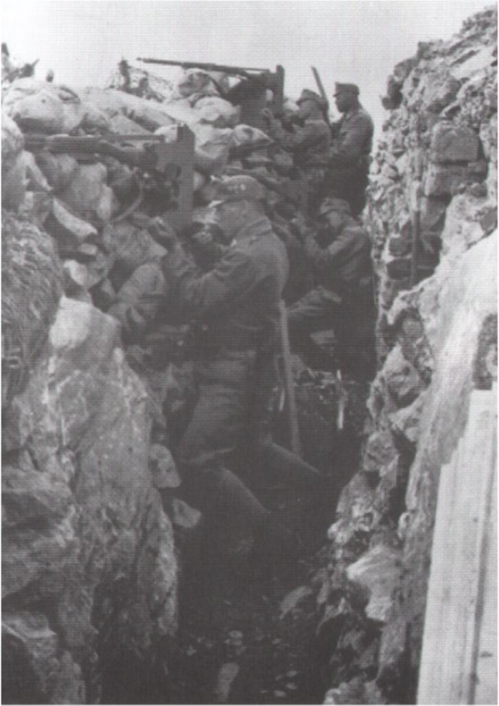 Trench on the Karst